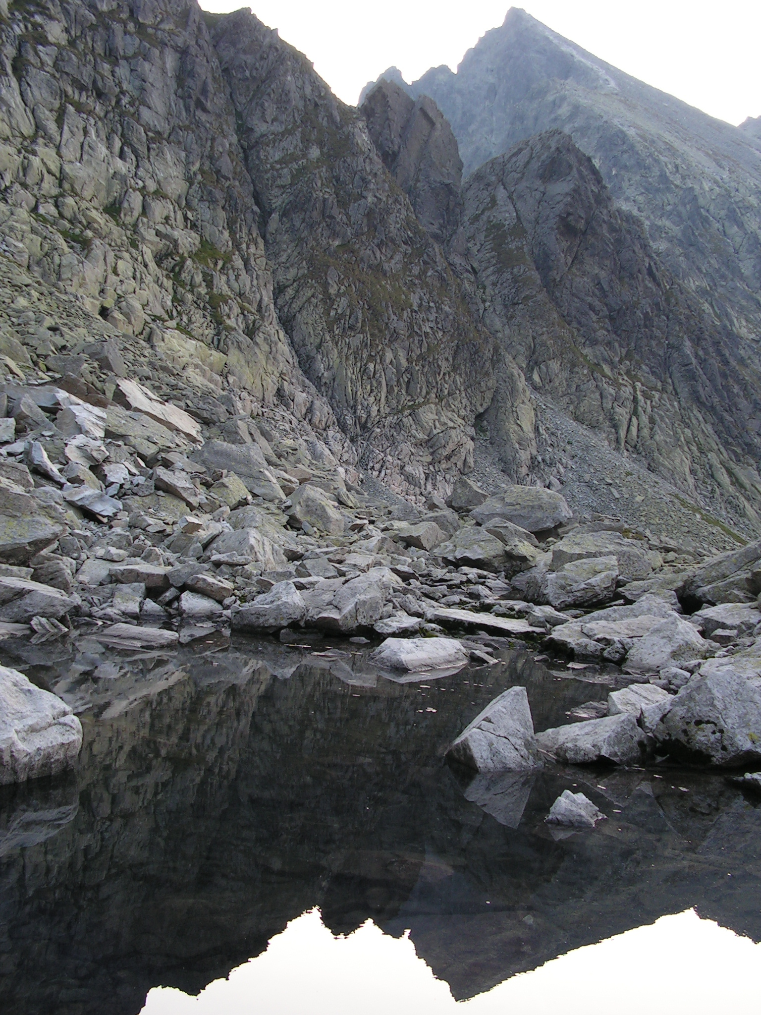 The upper lake of two Vyšné Velické plieska, in the background Východná Vysoká.